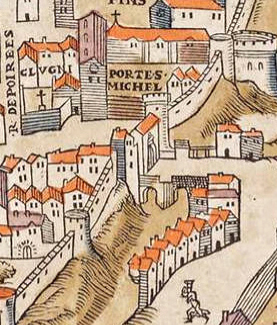 St-Michel gate on the plan of Truschet and Hoyau (1550).